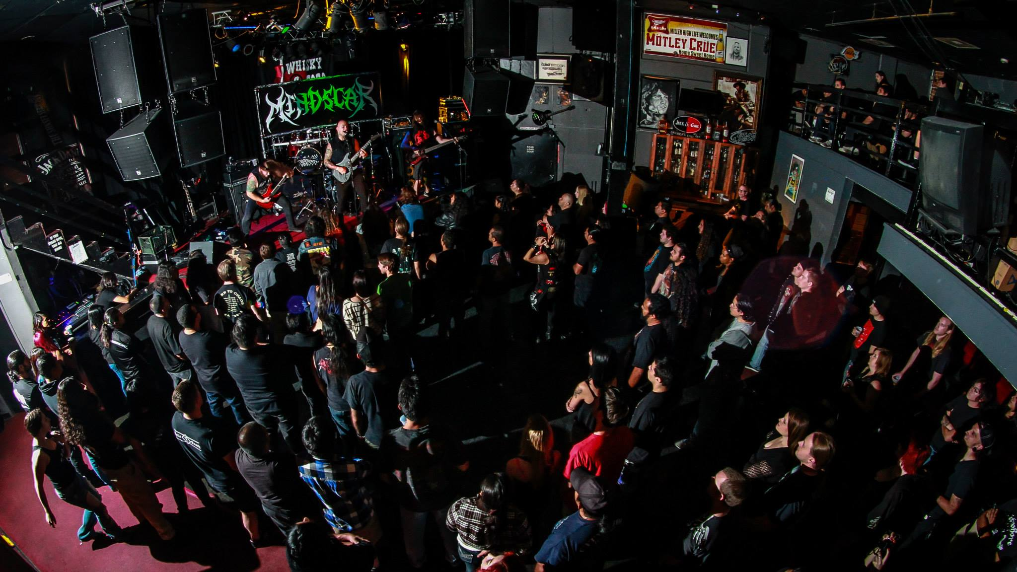 Mindscar live at the Whisky A Go Go in Hollywood, CA.